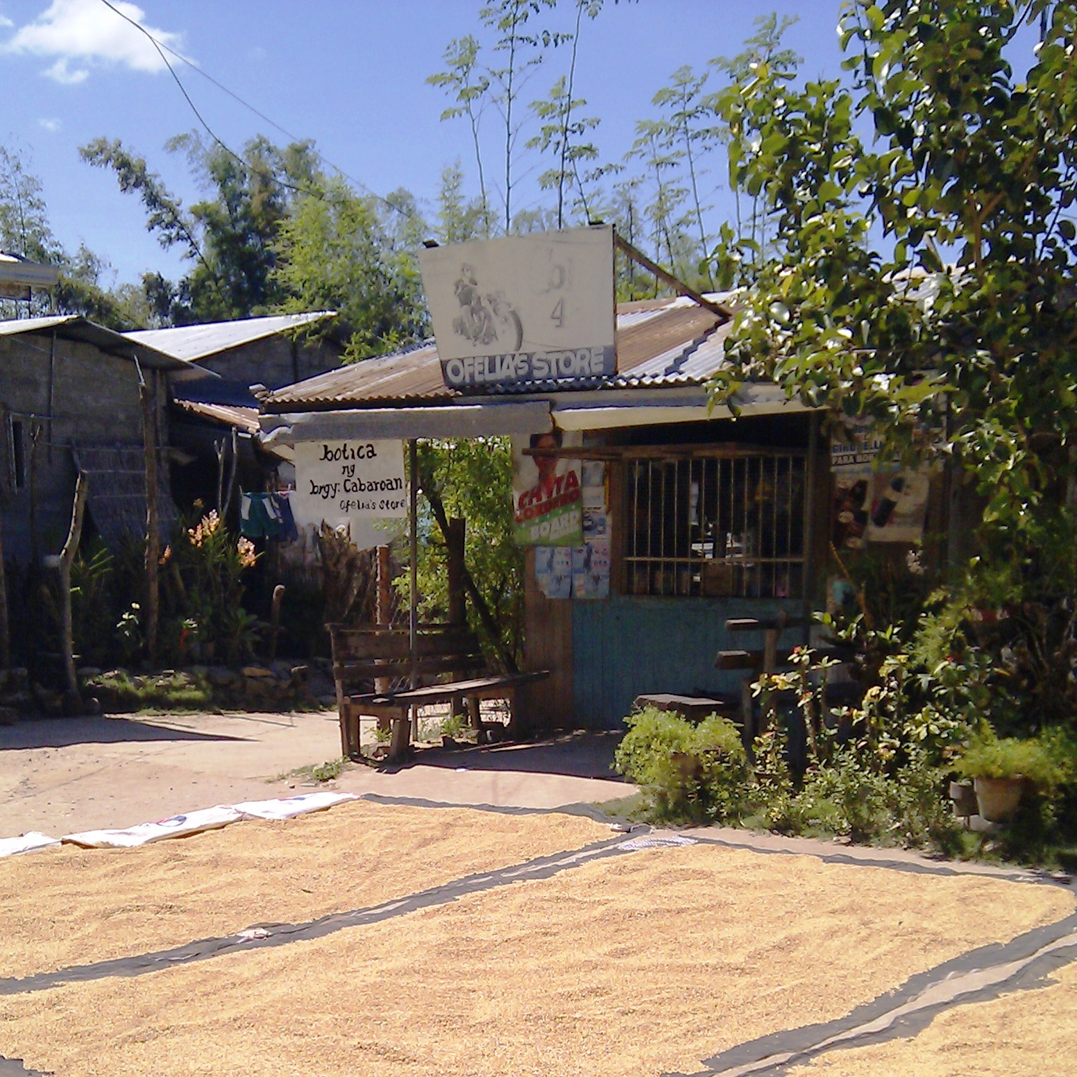 View from Brgy. Cabaroan in San Esteban